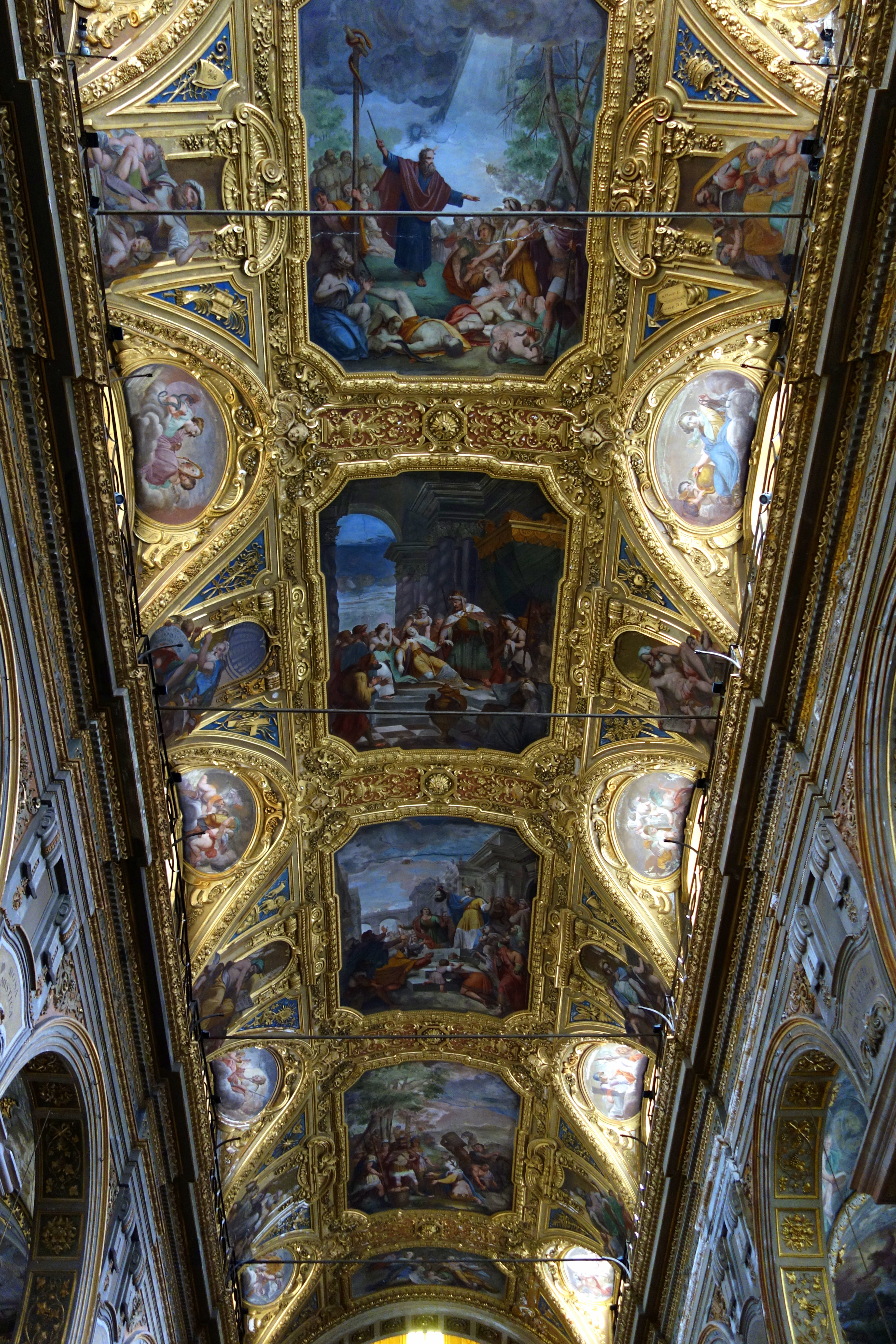 Interior view, Santa Maria delle Vigne (Genoa, Italy).